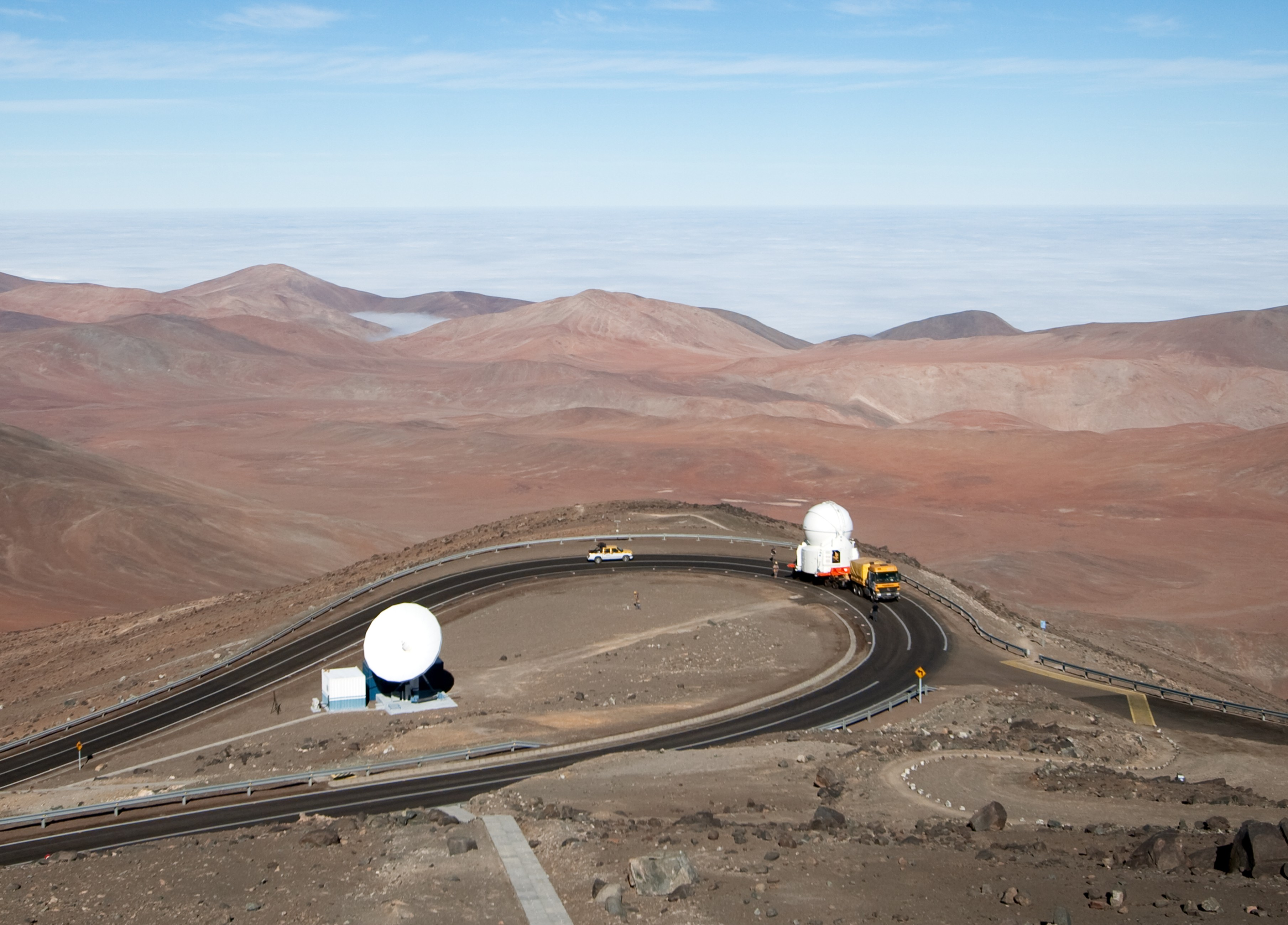 ESO astronomer Yuri Beletsky captured images of the transport of one of the 1.8-metre Auxiliary Telescopes (AT) that compose, together with their larger 8.2-metre companions, ESO’s Very Large Telescope (VLT) array. The AT was moved with the utmost care from the base camp, where it had been undergoing maintenance, including the re-coating of its mirrors, back to the VLT platform on top of Cerro Paranal. The ATs form part of the VLT Interferometer (VLTI), allowing this unique facility to operate every night. The ATs are mounted on tracks and can be moved between precisely defined observing positions, collecting light that is then combined in the VLTI. The ATs are very unusual telescopes, as they are self-contained in individual ultra-compact protective domes, and travel with their own electronics, ventilation, hydraulics and cooling systems. Each AT has a transporter that lifts the telescope and moves it from one position to the next. Although for the transfer down to base camp, ESO engineers and technicians rely on a more traditional means of transport, the truck.